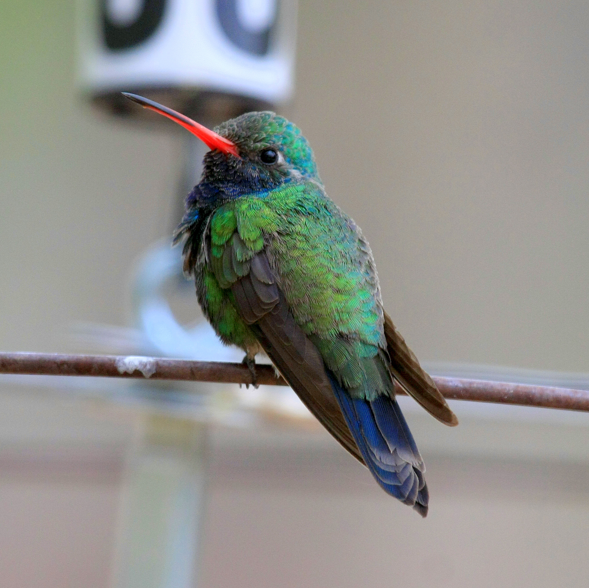 Cynanthus latirostris, Arizona.